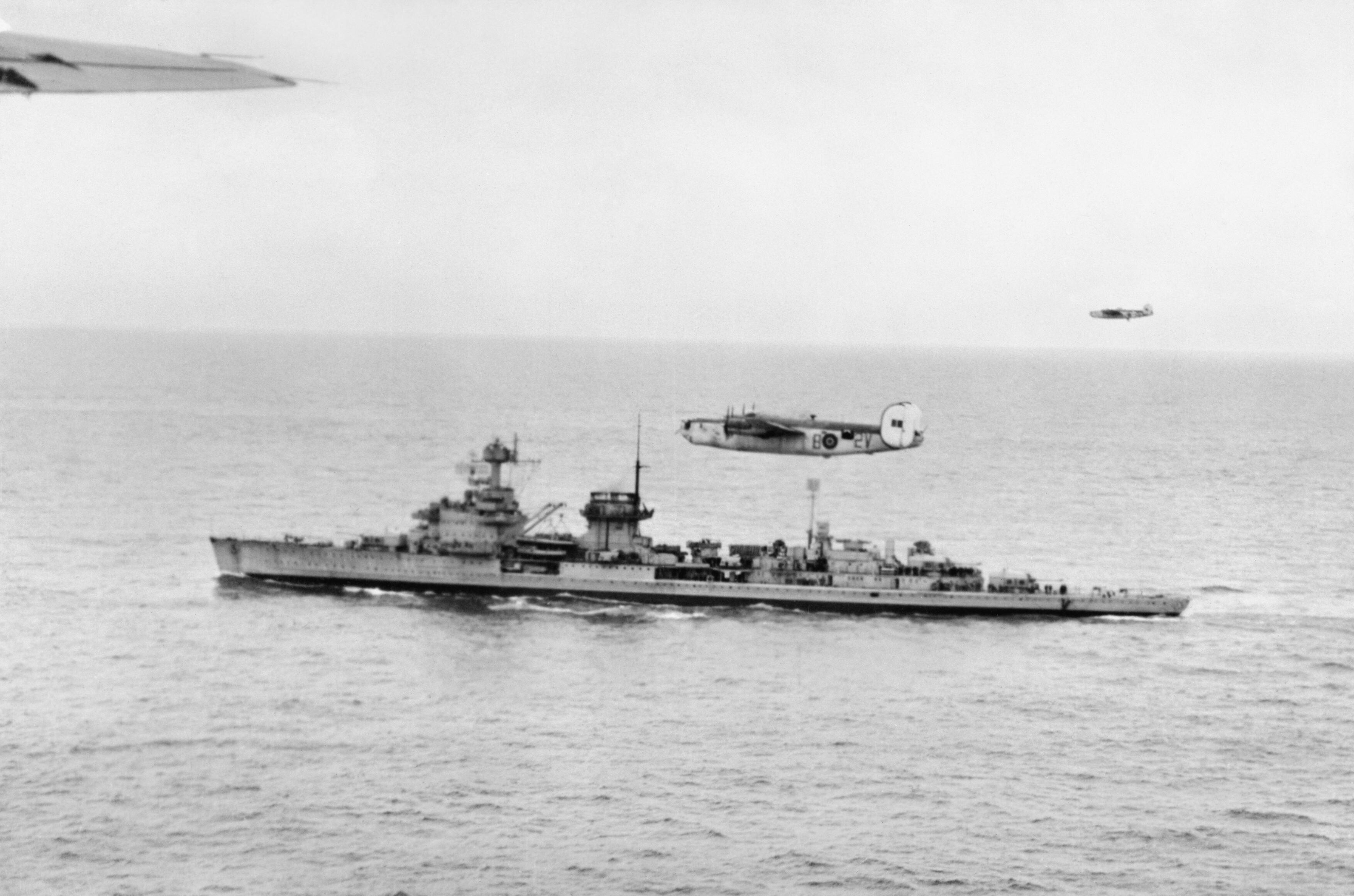 Royal Air Force Coastal Command, 1939-1945. The German light cruiser NURNBERG sailing from Copenhagen to Wilhelmshaven under the terms of surrender, escorted by two Consolidated Liberators of No. 547 Squadron RAF.